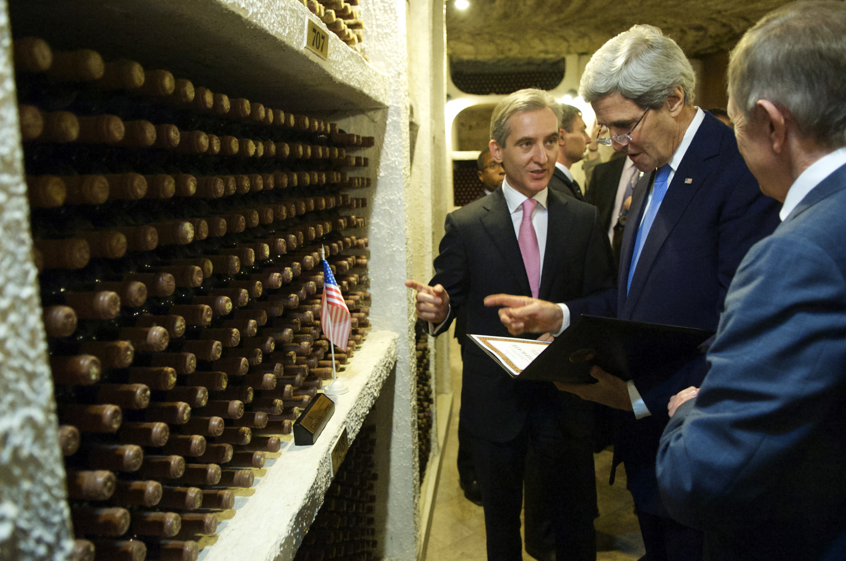 Moldovan Prime Minister Lurie Leanca, left, shows U.S. Secretary of State John Kerry a bin of local wine reserved in his honor during a tour of a vast cellars at the Cricova Winery following an economic development event outside outside Chisinau, Moldova, on December 4, 2013. [State Department photo/ Public Domain]